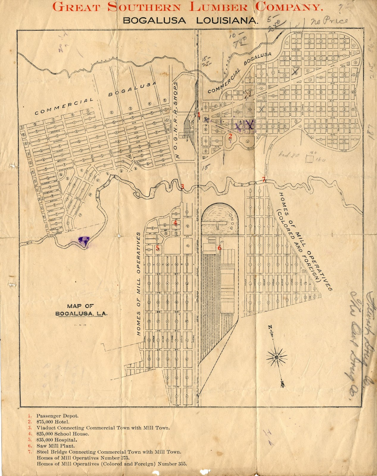 1911 map of the sections of Bogalusa, Louisiana. "Commercial Bogalusa" at top (north) side of Bogue Lusa Creek; at bottom south is the Greater Southern Lumber Company mill town section. Note separate area of housing for "Colored and foreign".